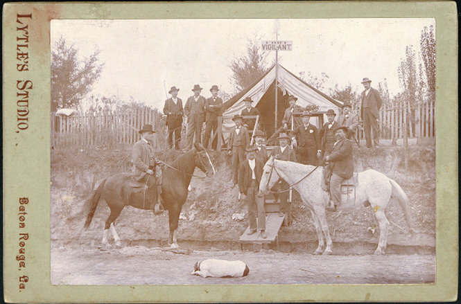 Yellow Fever Quarantine Camp, Louisiana, 1897, showing men on horseback in road, further back standing men, in front of tent with sign reading "VIGILANT".